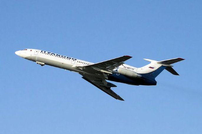 Still having the old brick in hand (olympus C-4000) to shoot with limited zoom on my first Russian aircraft. Tupolev Tu-154M Amsterdam schiphol airport EHAM (06-02-2005)